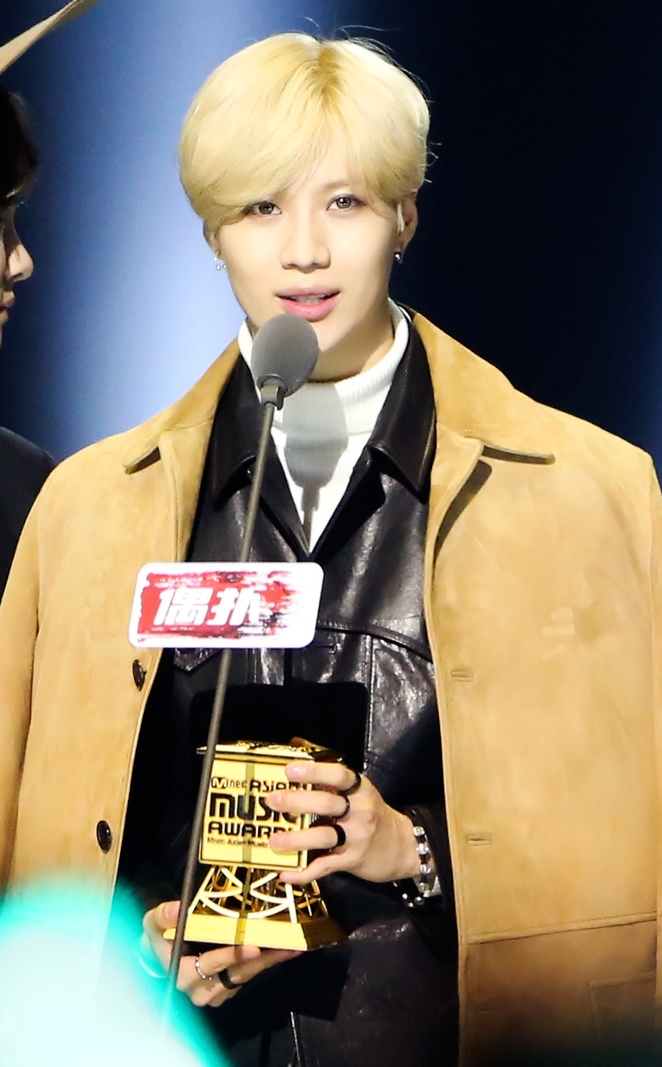 Taemin at Mnet Asian Music Awards in Hong Kong on December 2, 2015.